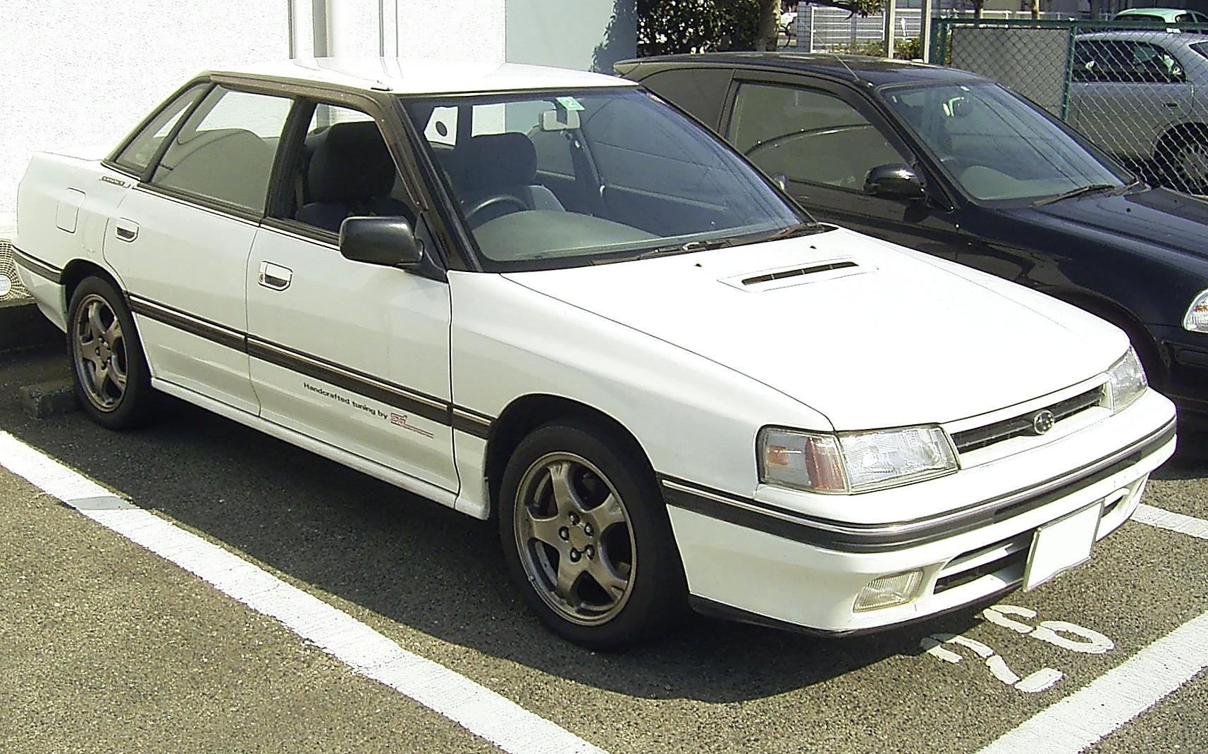 JDM Subaru Legacy Turbo, 2007, photographed by the original contributor